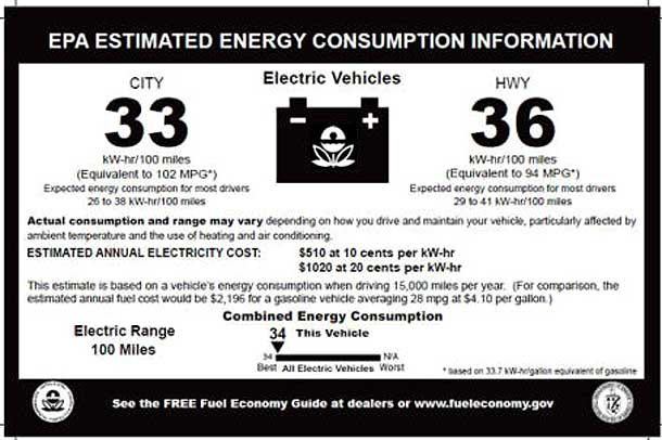 EPA fuel economy comparison window sticker (Monroney label) for the 2009 MINI E (electric car)